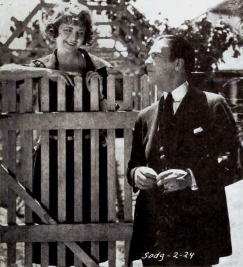 Still from the American drama film Live Wires (1921) with Edna Murphy and Johnnie Walker, on page 45 of the June 25, 1921 Exhibitors Herald.